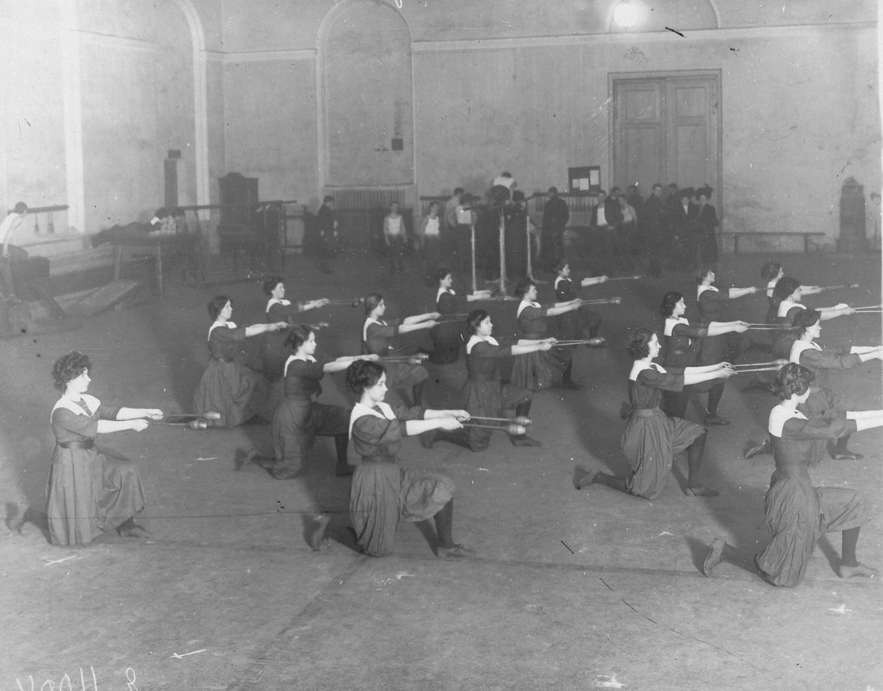 Bogatyr (sports club)